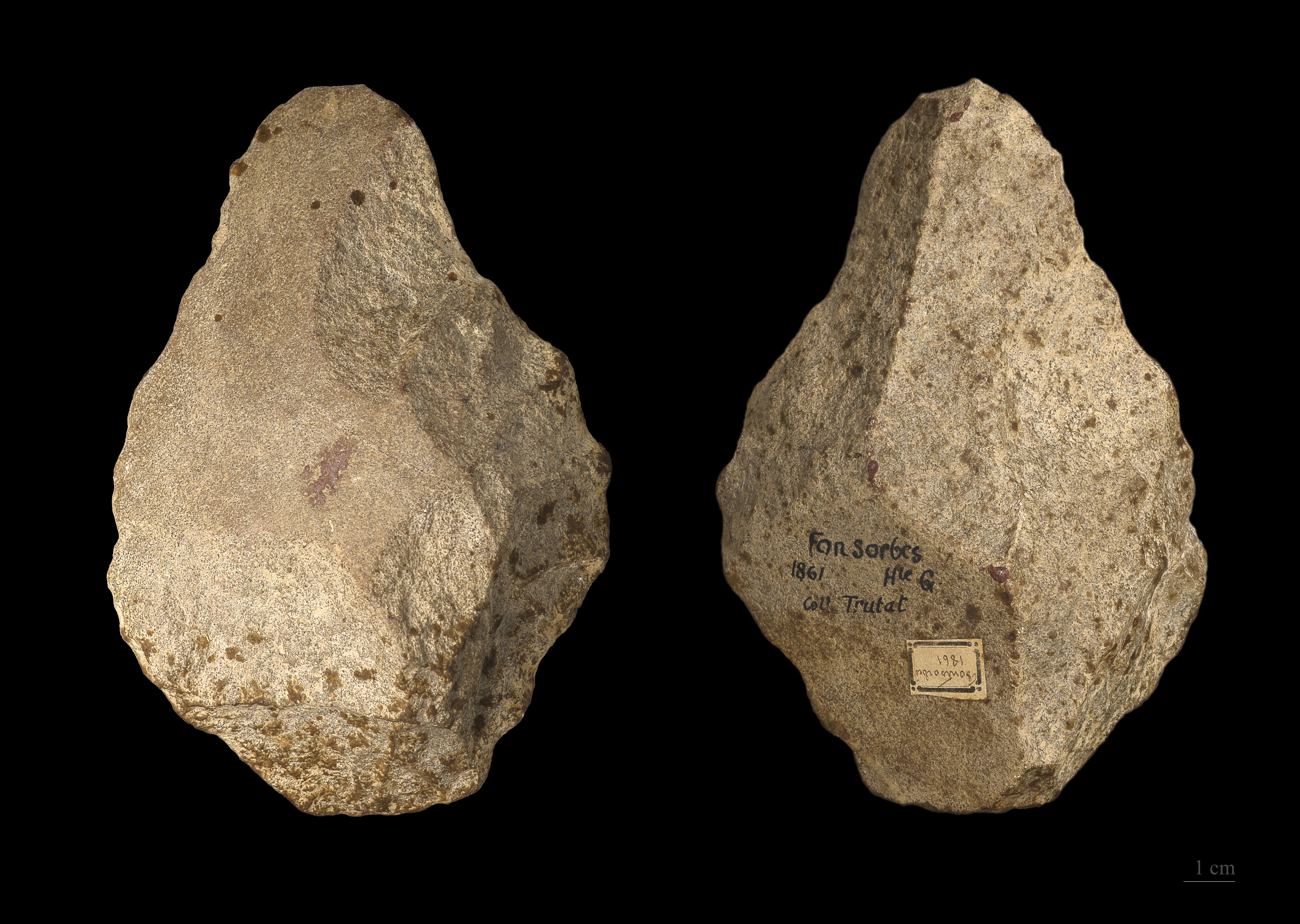 Chopper- Different views of the same specimen